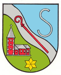 Coat of arms of Niederschlettenbach